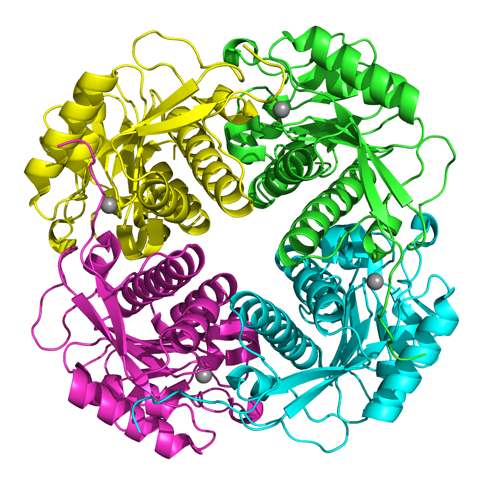 Structure of APIP, a methionine salvage enzyme. PDB entry 4m6r